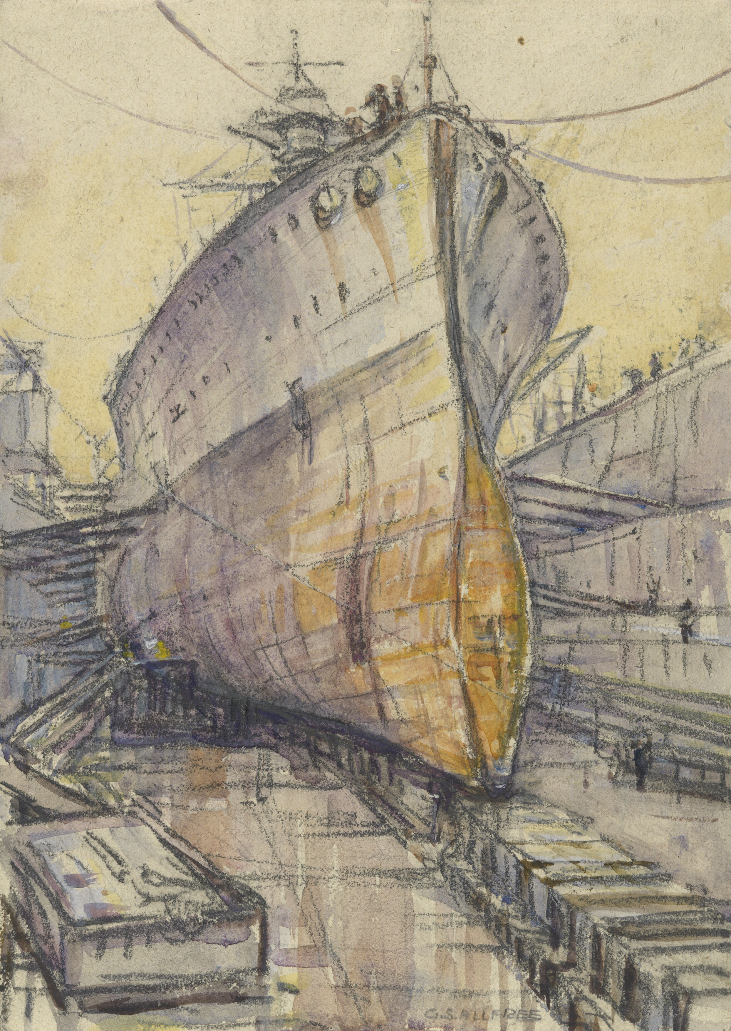 HMS Revenge in Dry Dock, Portsmouth, 1918 image: a view of the looming bow of the Royal Navy battleship HMS Revenge whilst undergoing maintenance in dry dock at Portsmouth. The huge ship is tethered to the dockside and supported against the side of the dock with large struts. The lower half of the hull, usually below the water level, is a rusty orange colour. Only the tallest part of the ship's superstructure is visible at the top of the composition.